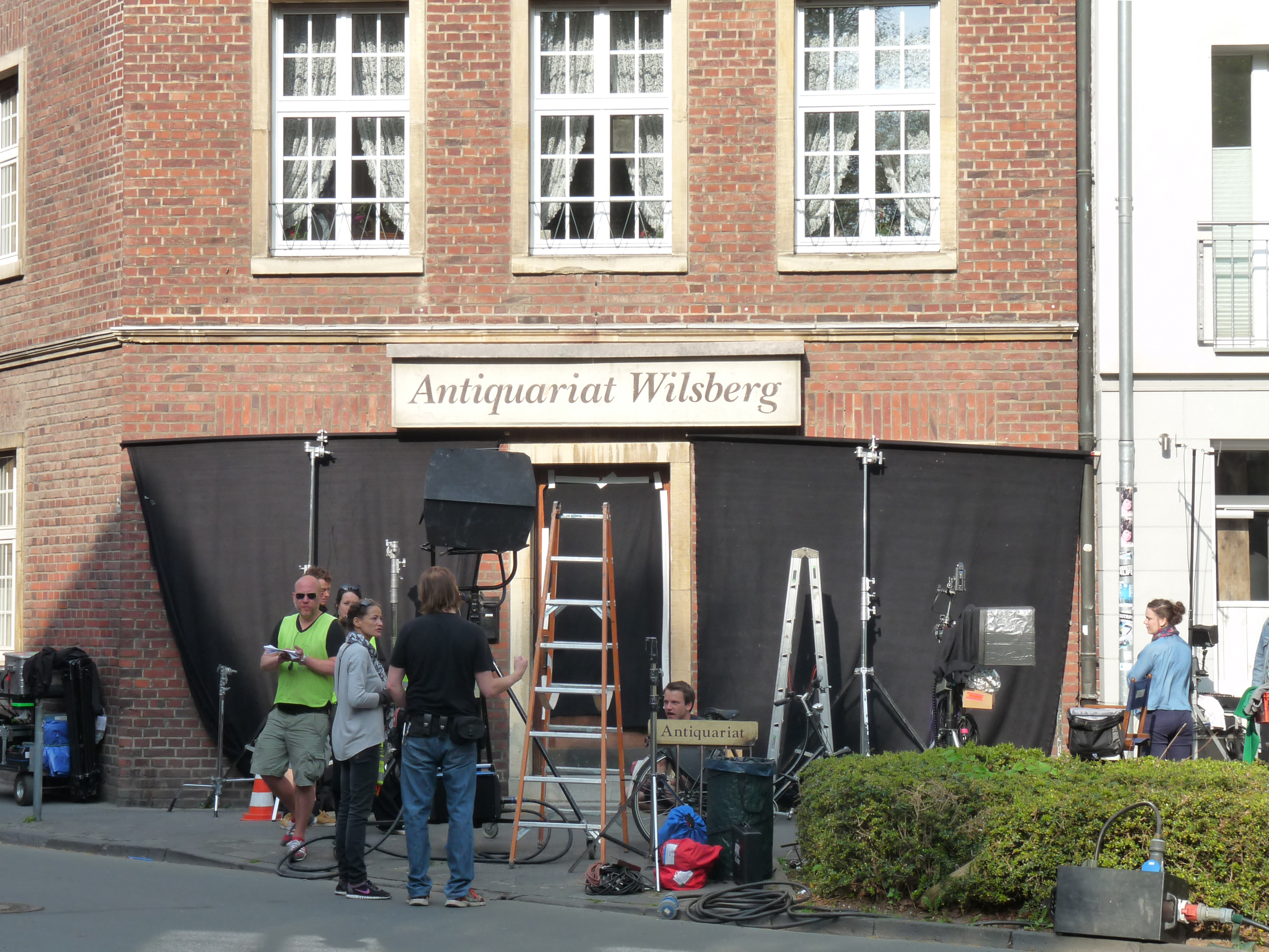 shooting of episode Mundtot of TV series Wilsberg